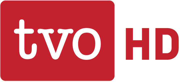 TVOntario HD logo